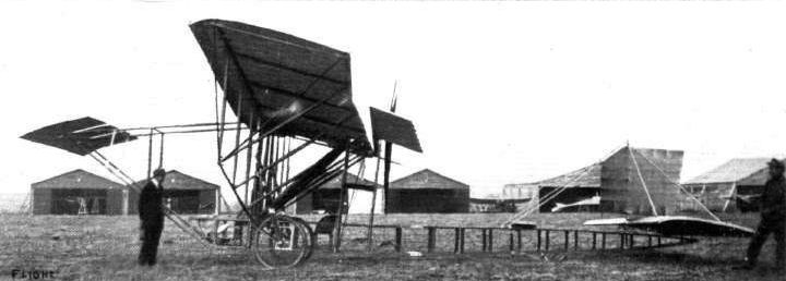 Photo of Bleriot Bleriot-XIII aircraft full side view.jpg